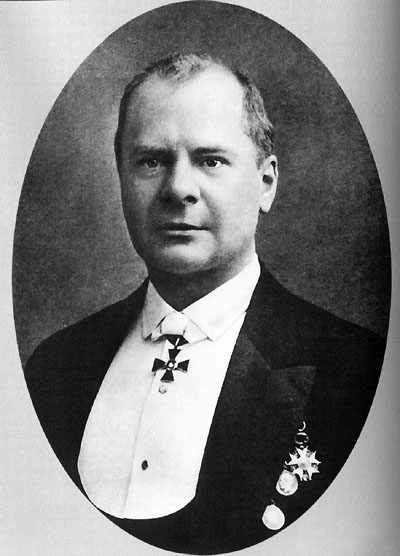 Grigory Grigoryevich Elisseeff, Russian businessman (died 1949)